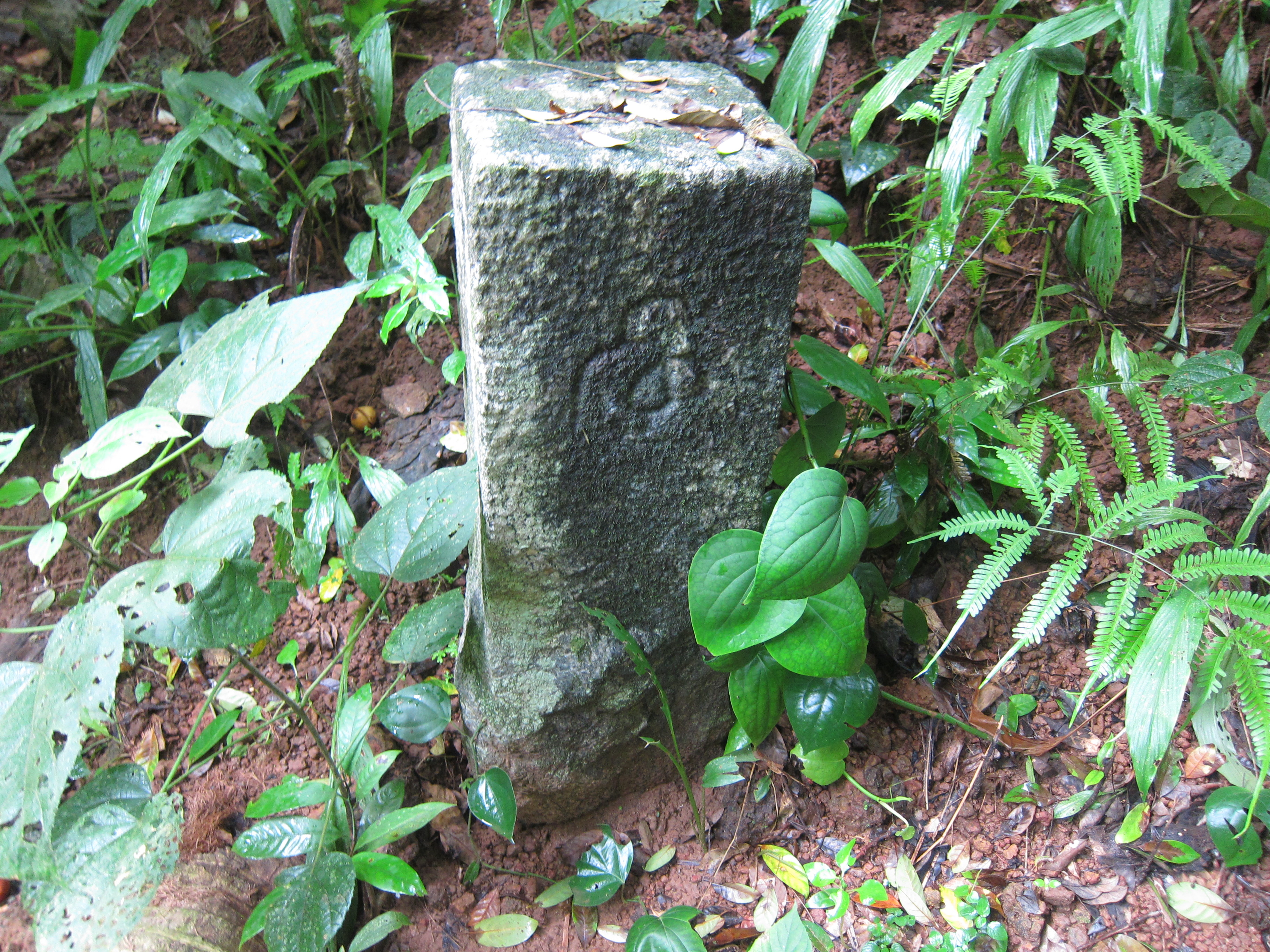 കൊതിക്കല്ല് Kochi-Travencore Border in Puthenchira... പുത്തൻചിറയുടെ അതിർത്തി നിർണ്ണയിക്കുന്നതിനായി ആറടി പാത നിർമ്മിച്ചിട്ടുണ്ടായിരുന്നു. അതിന്റെ പകുതിയിൽ ആറടിയോളം വലുപ്പമുള്ള വലിയ കരിങ്കലുകൾ സ്താപിച്ചിരുന്നു. "കൊതി" കല്ല് എന്നാണ് വിളിക്കുന്നത്. കല്ലിന്റെ ഒരു ഭാഗത്ത് "കെ" (കൊച്ചി) എന്നും മറുഭാഗത്ത് "തി" (തിരുവിതാംകൂർ) എന്നും കല്ലിൽ കൊത്തി രേഖപ്പെടുത്തിയിട്ടുണ്ട്.